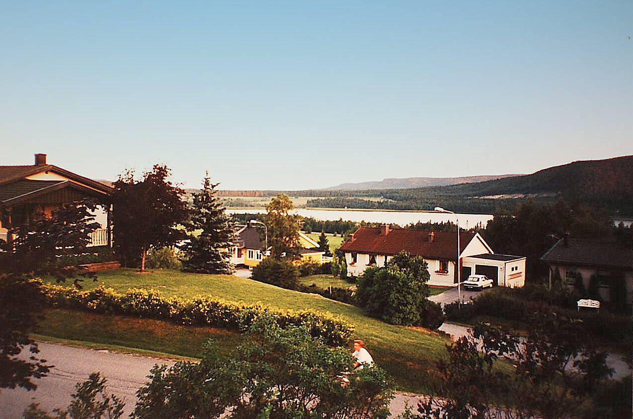 View from Violinvägen in Fageråsen, Västernorrland, Sweden towards Svedjesjön.